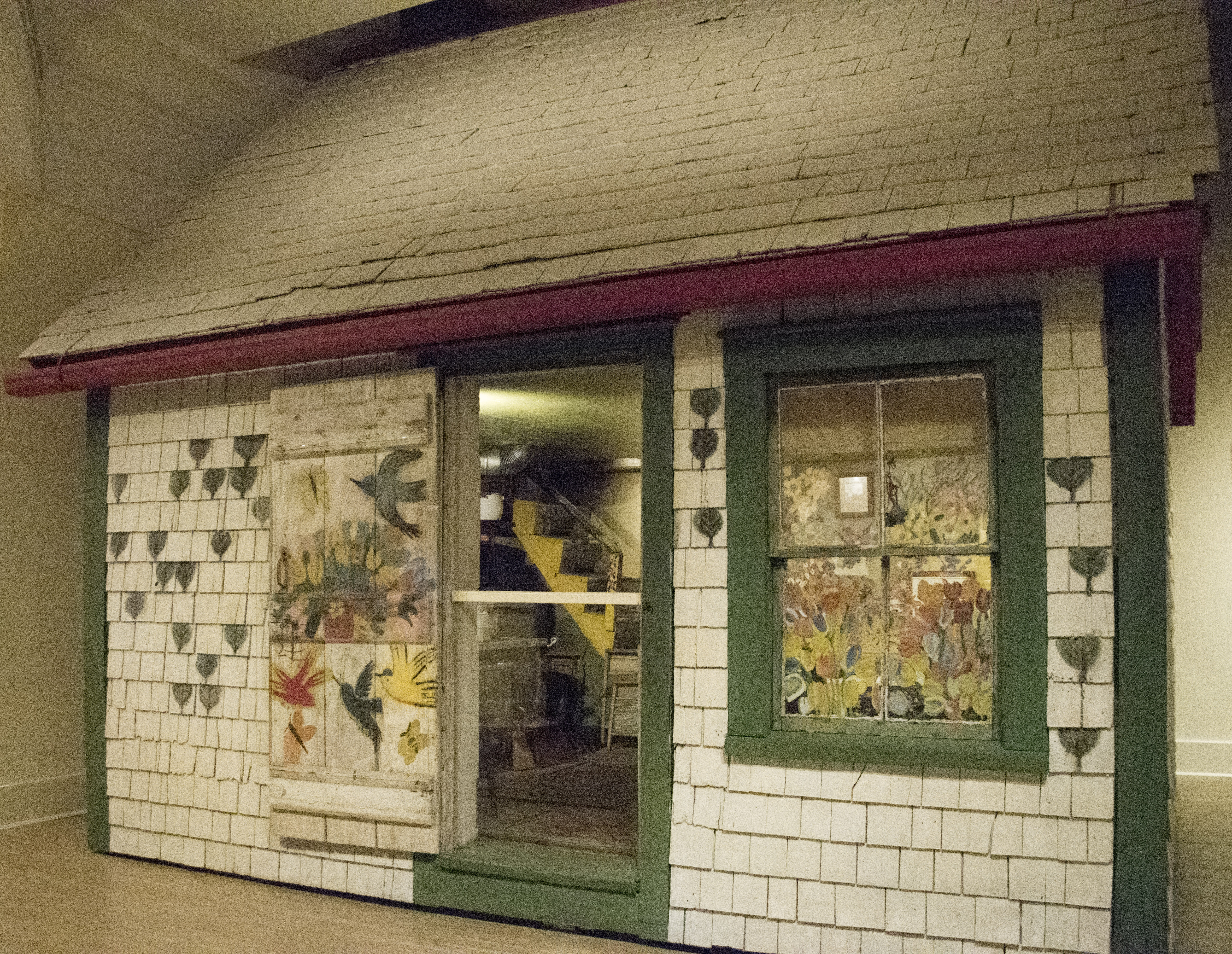 Maud Lewis's house